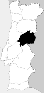 Former province of Beira Baixa, Portugal Created by User:Brian Boru in September 2005, based on a map created by Jorge Candeias.